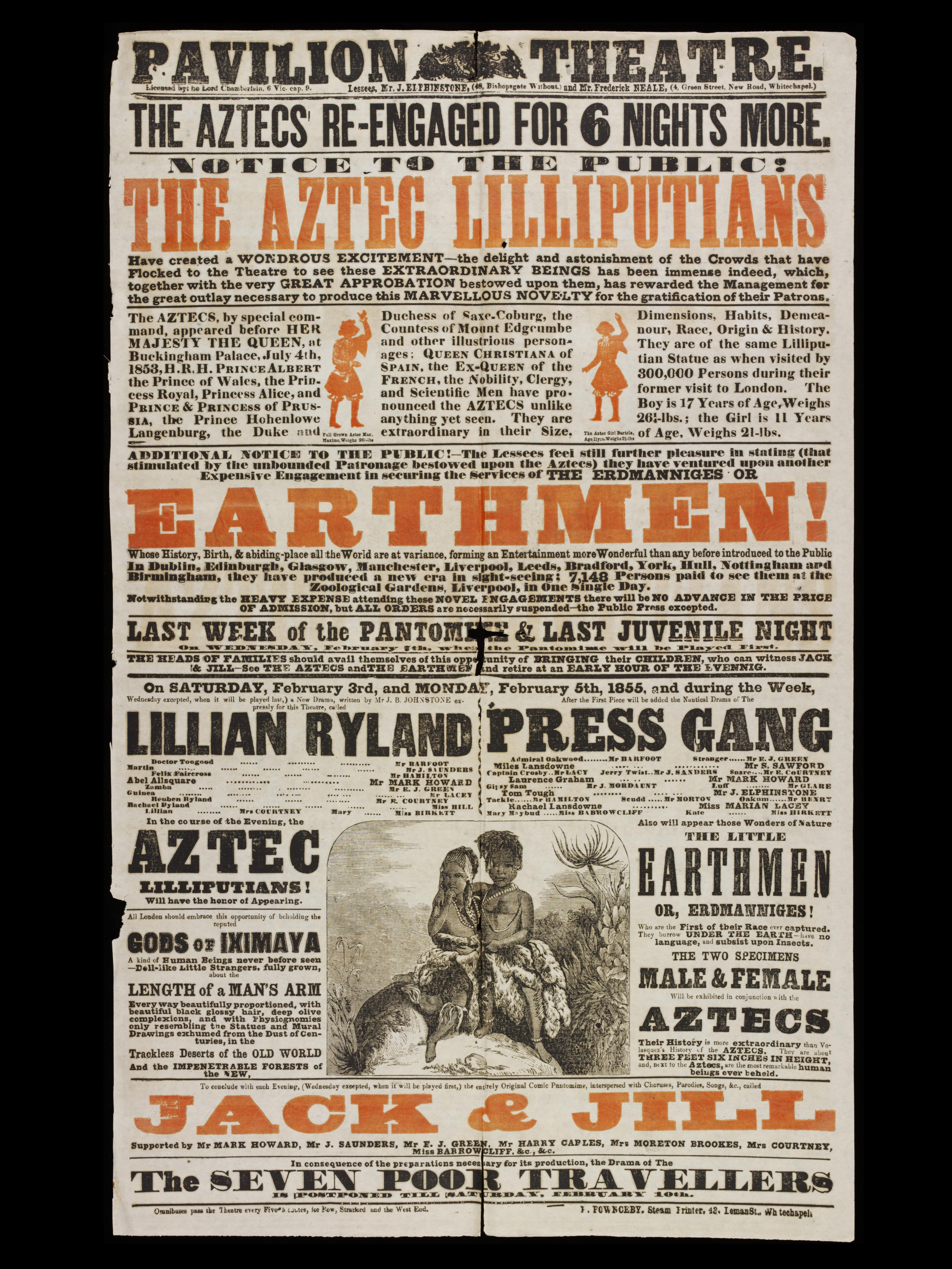 ◦Playbill for the Pavilion Theatre's productions of: Lillian Ryland, by J.B. Johnstone; The Aztec Lilliputians, the "reputed Gods of Iximaya"; the nautical drama, The press gang; the wonders of nature, The Little Earthmen, or, Erdmanniges! "who are the first of their race ever captured, they burrow under the earth, have no language, and subsist upon insects"; and the pantomime, Jack & Jill.